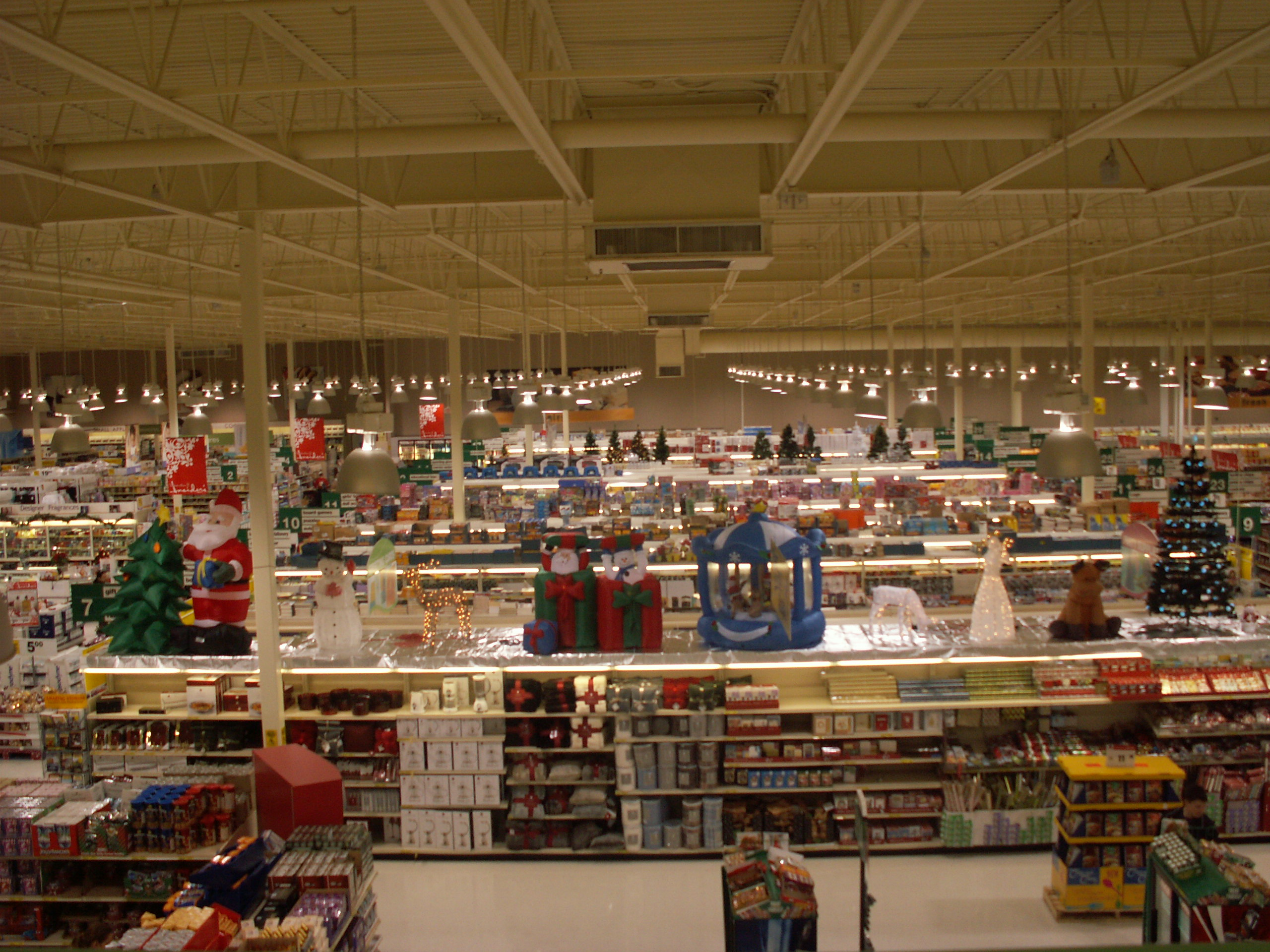 Real Canadian Superstore in Winkler, Manitoba